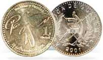 Quetzal coin